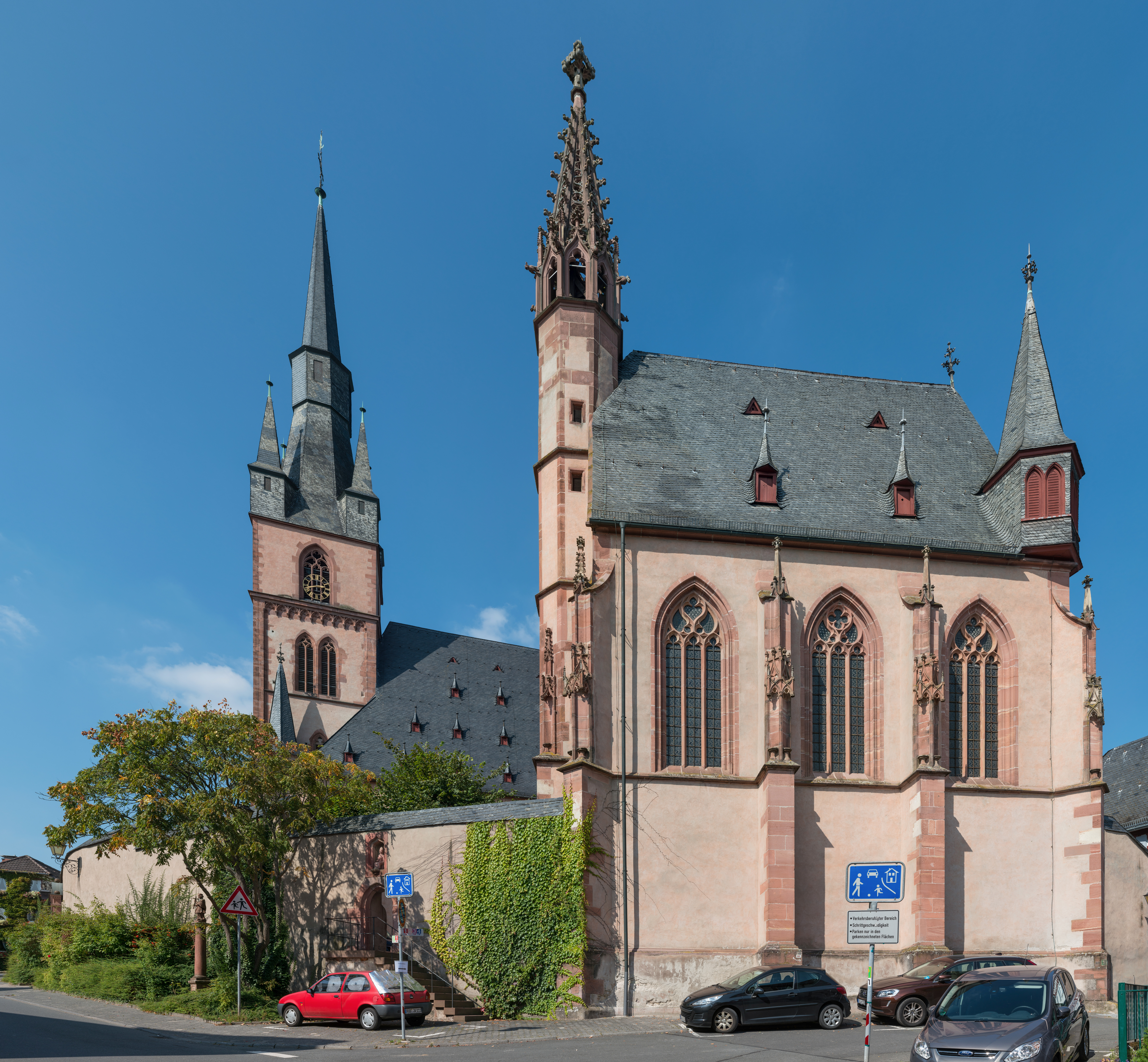 The Michaelskapelle in Kiedrich, as seen from south. St. Valentinus is also visible, but partially hidden